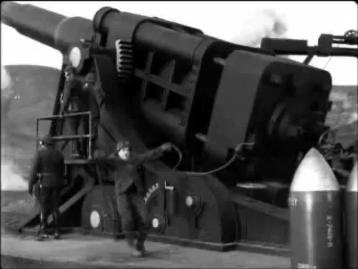 Great_Dictator_-_The_Big_Bertha_-_Cannon_in_the_First_World_War